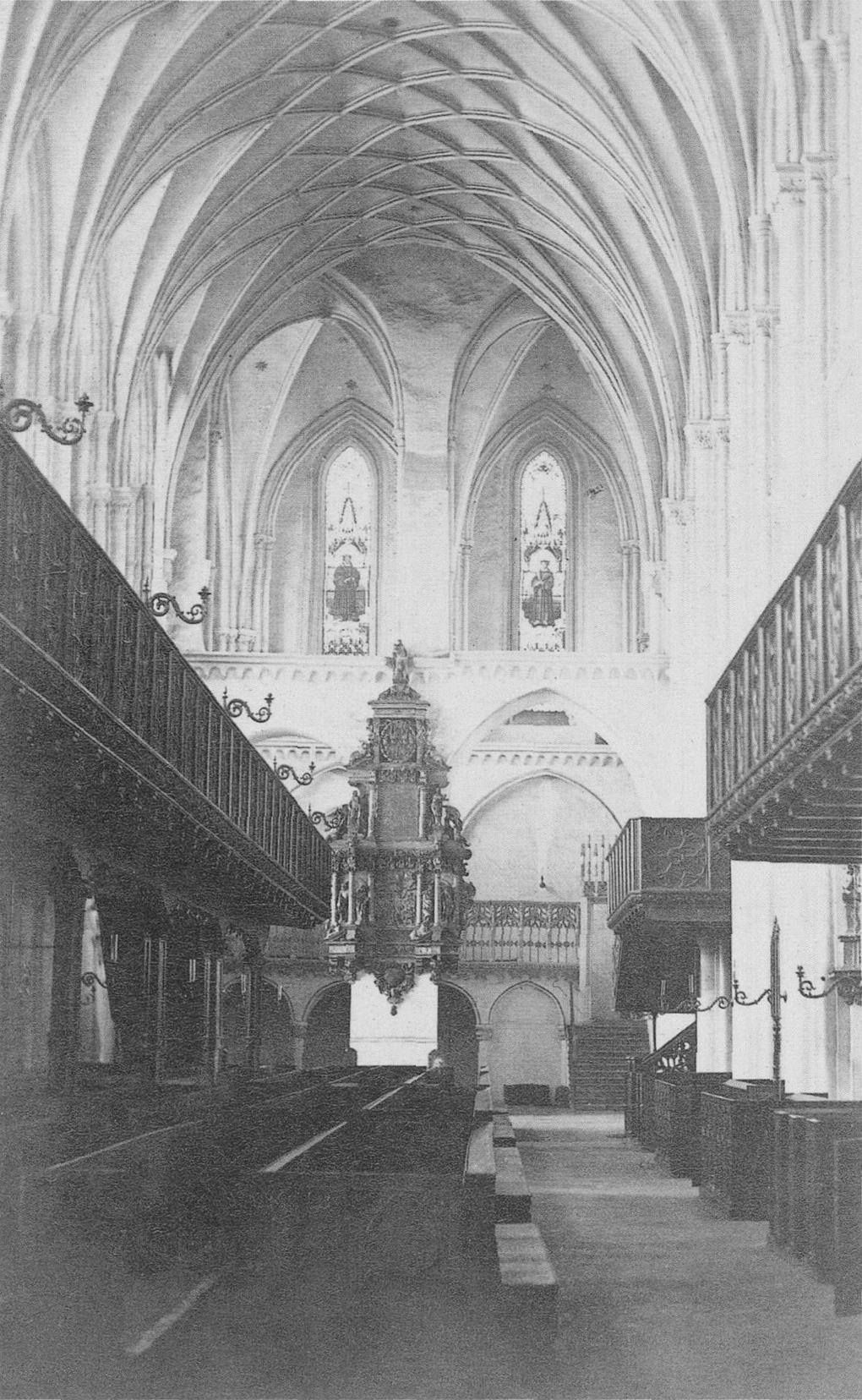 Central nave of Bremen Cathedral, photograph before 1888